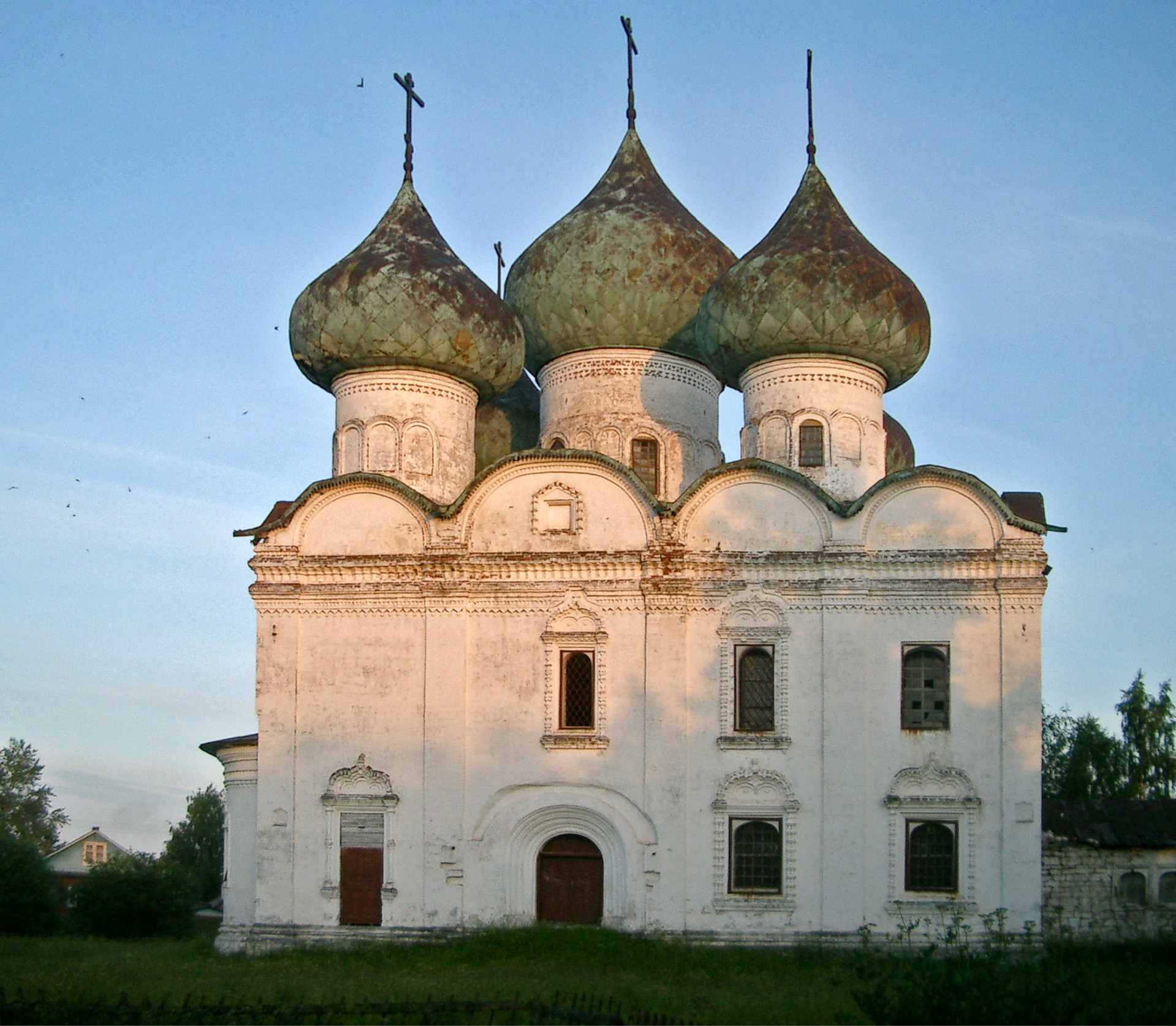 Resurrection Church from the North, Kargopol